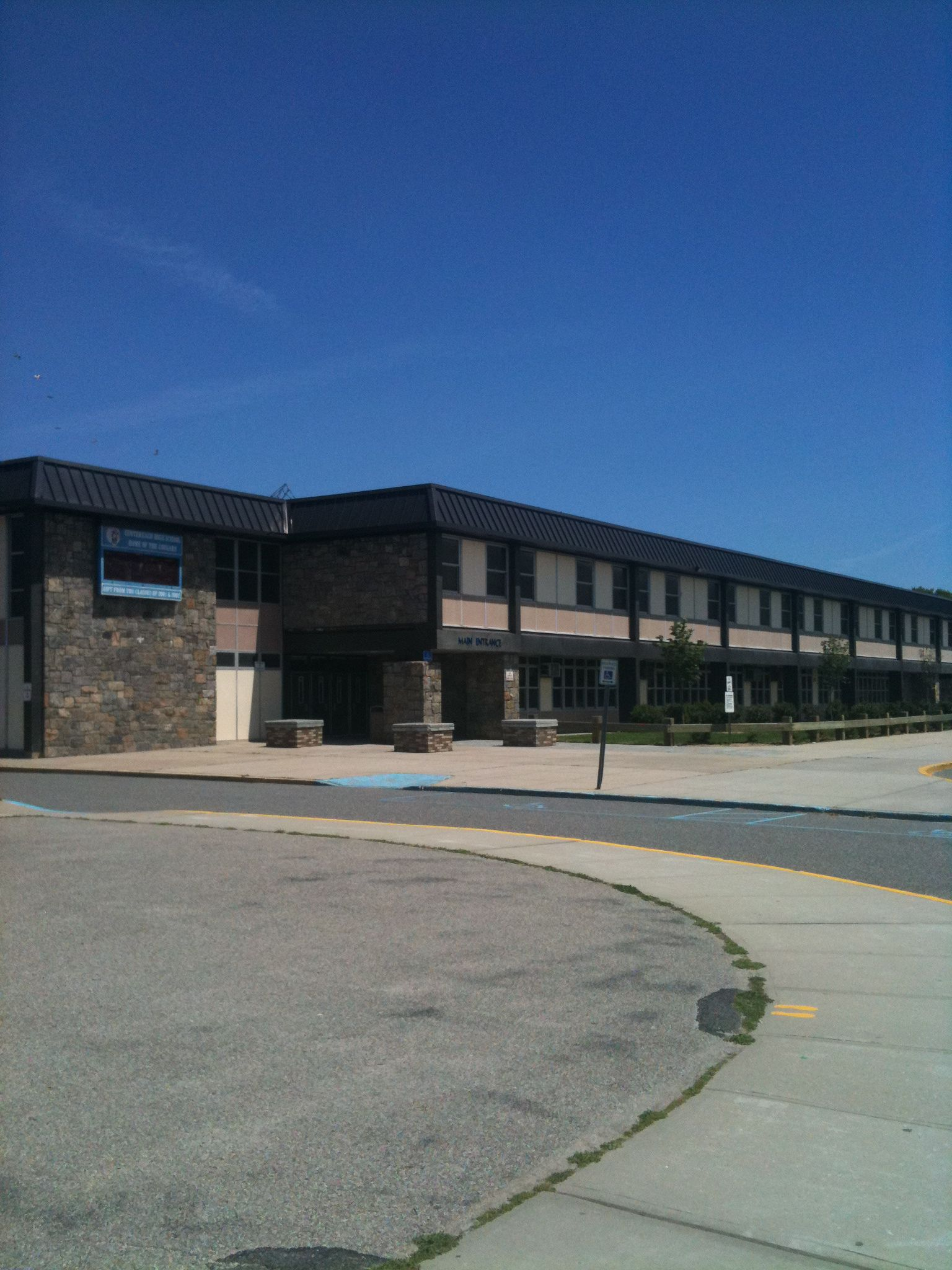 Up close image of Centereach High School main entrance